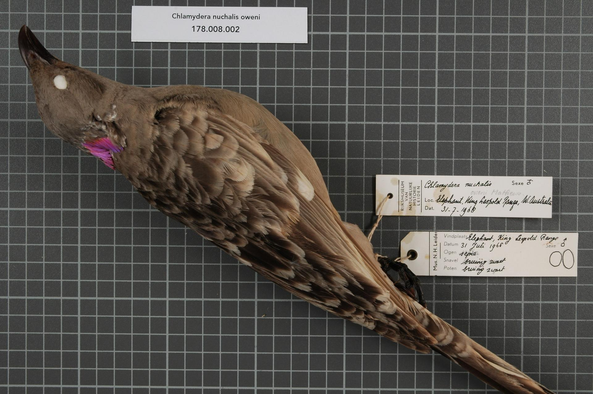 Chlamydera nuchalis oweni Mathews, 1912